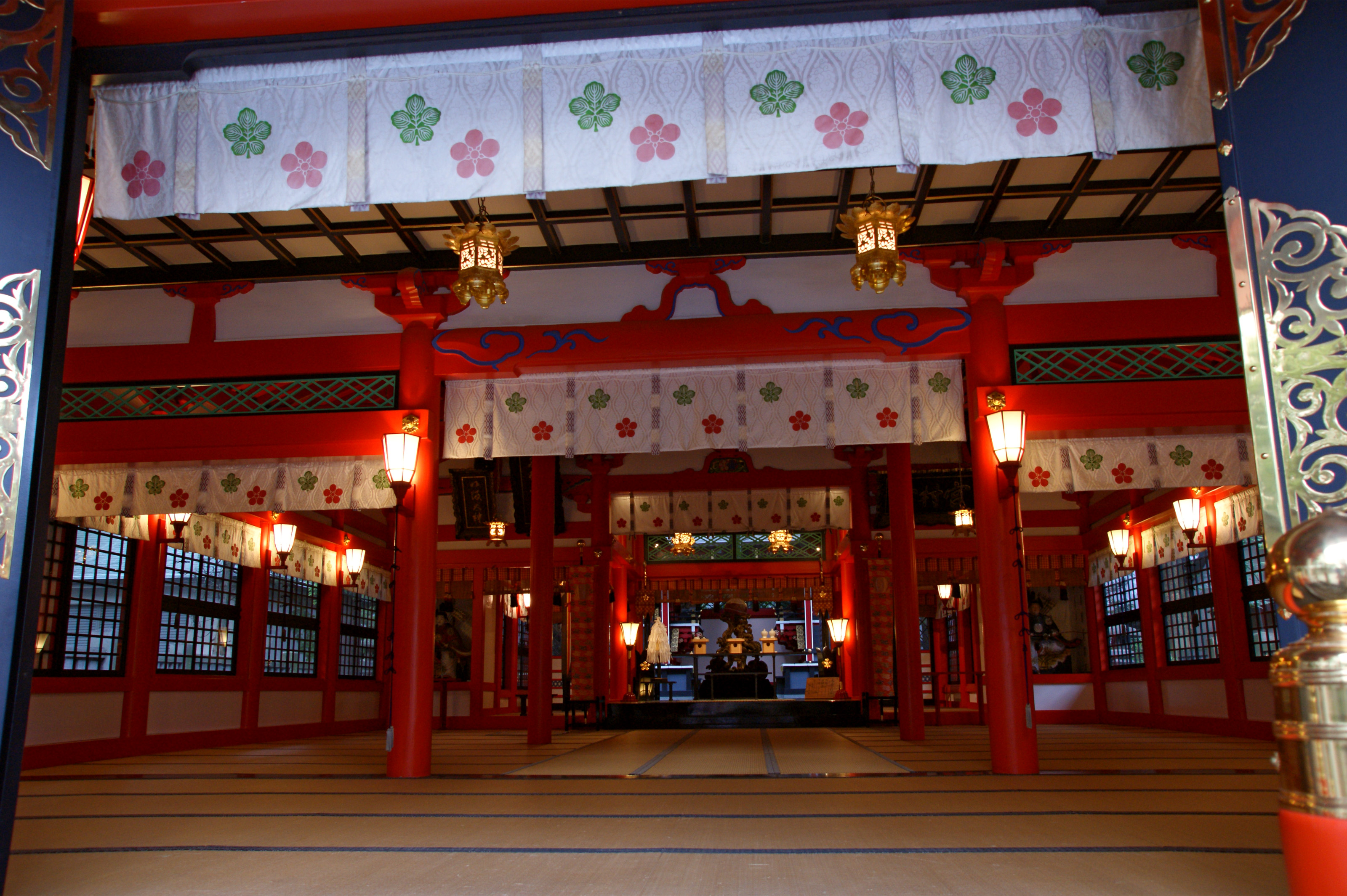 Fukashi-jinja in Matsumoto, Nagano prefecture, Japan